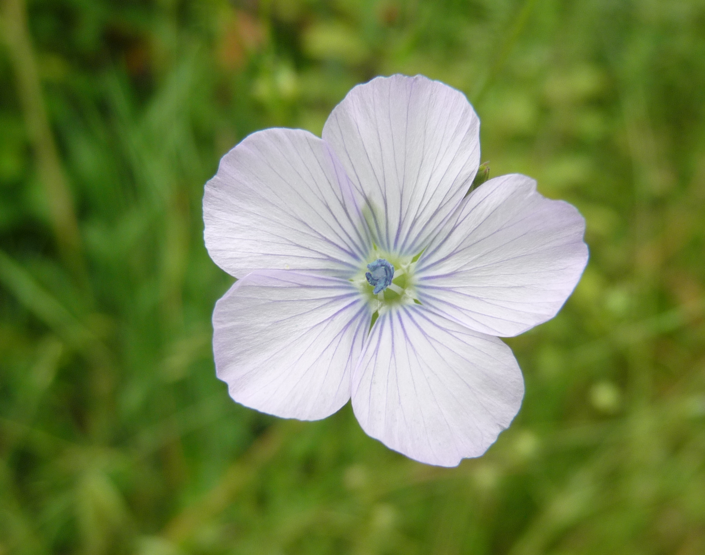 Linum bienne, near Livorno, Tuscany, Italy